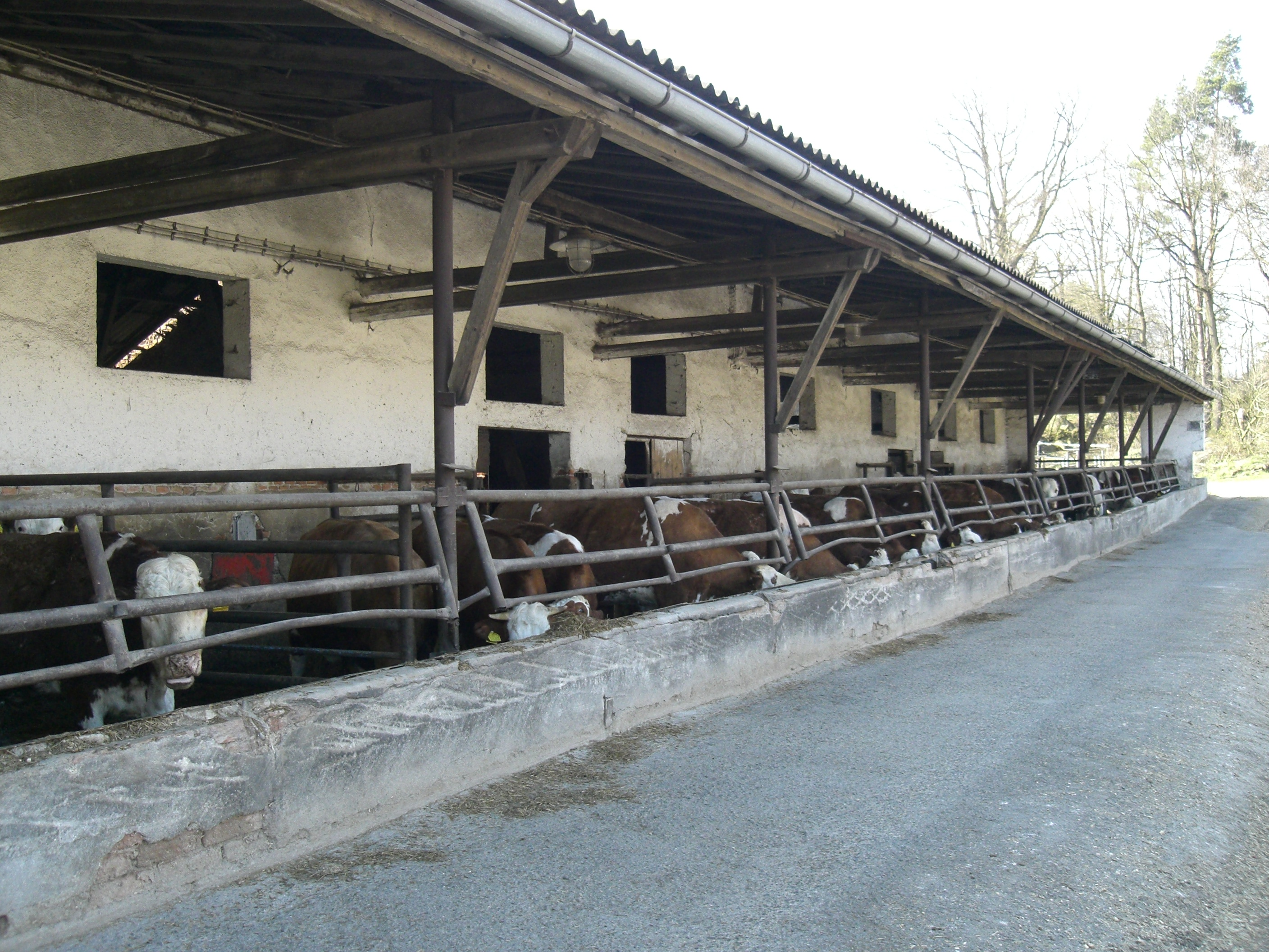 Cowhouse in Hrazany village, Czech Republic